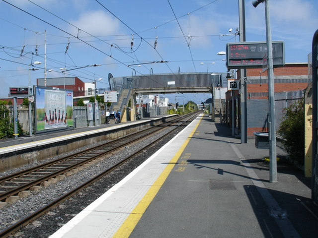 Kilbarrack DART Station, near to Raheny, Kilbarrack and Coolock, Dublin, Ireland. On the southbound platform. In the distance, you can see the platforms of Howth Junction, 500 metres up the line (and in the same square!)